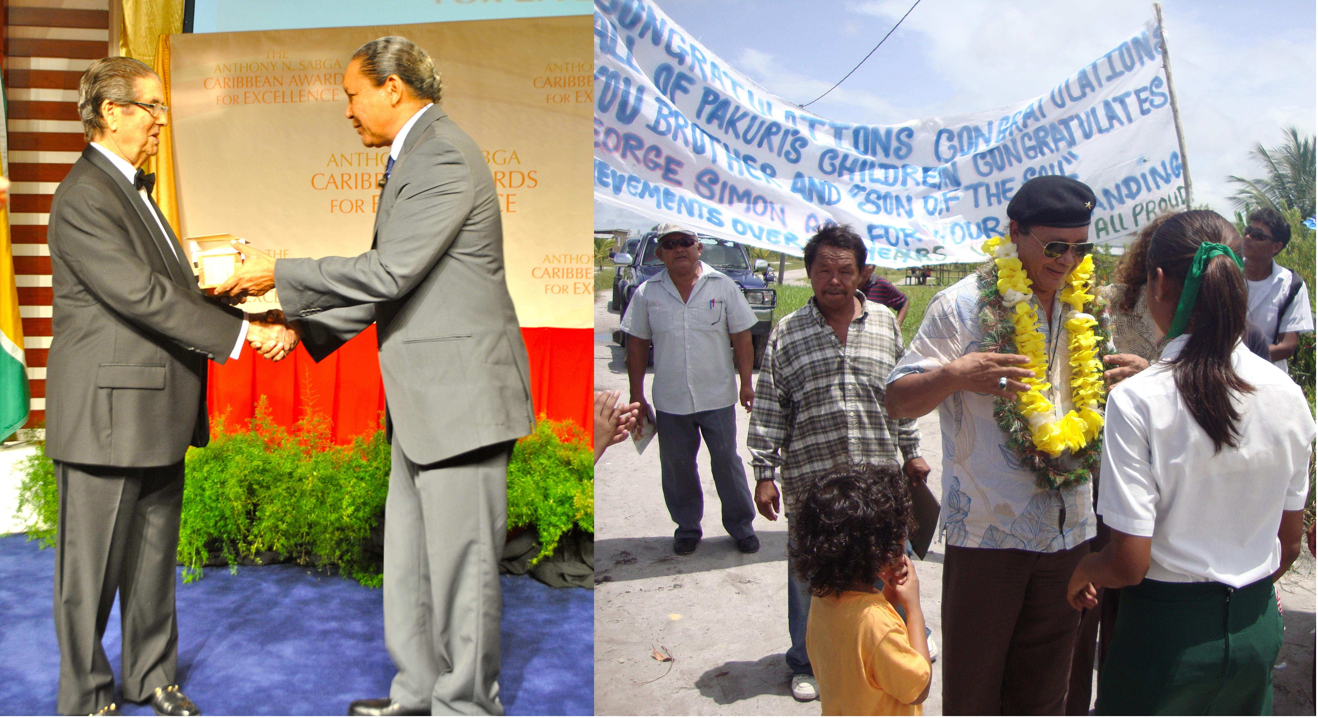 Composite picture of ceremonies surrounding George Simon's receipt of the Anthony N. Sagba Caribbean Award for Excellence, including image of Simon receiving the award (left) and image of celebrations for Simon after his receipt of the award in St. Cuthbert's mission